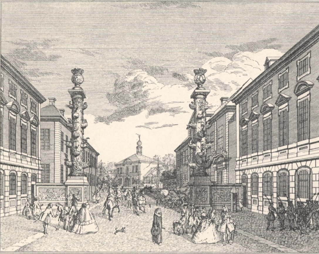 DanskÆressøjler i Størrestræde opstillet af Admiralitetet i forbindelse med fejringen i december 1743 af brylluppet mellem kronprins Frederik og prinsesse Louise